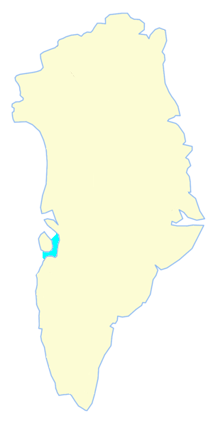 Map showing the position of the Disko Bay in Greenland.